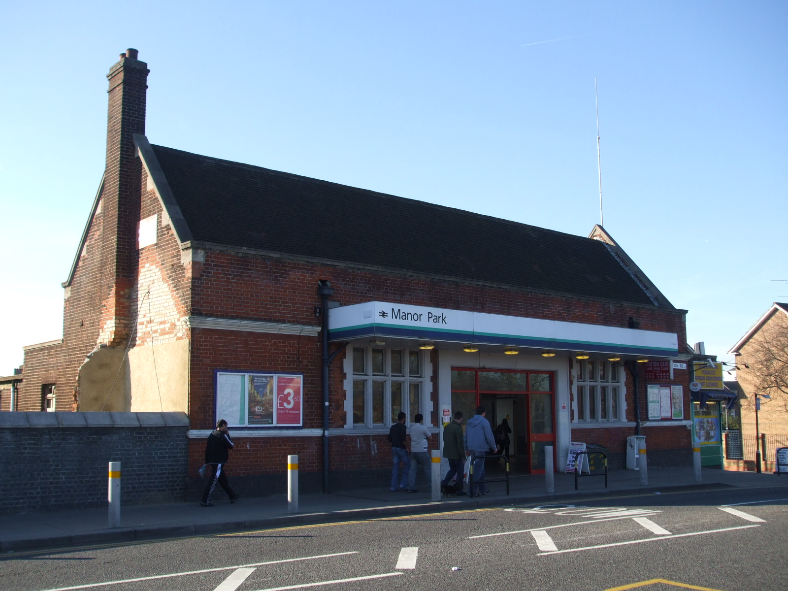 Manor Park Railway station